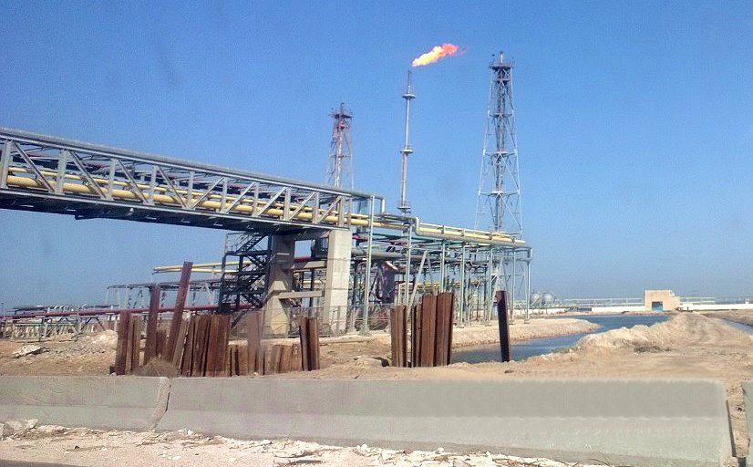 Oil refinery at lake Mariout close to Alexandria, Egypt.